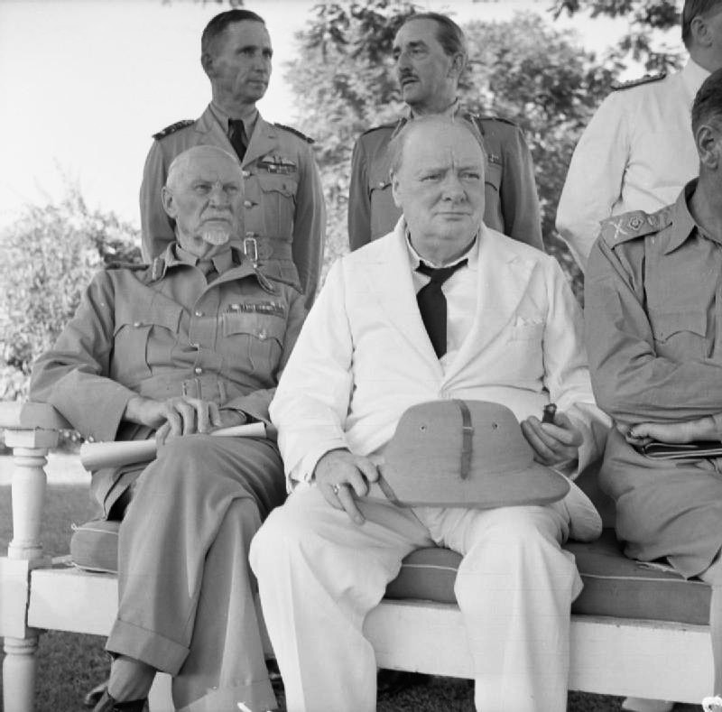 The British Army in North Africa 1942 Winston Churchill with Field Marshal Smuts and behind, Air Chief Marshal Sir Arthur Tedder (left) and Sir Alan Brooke, at the British Embassy in Cairo, 5 August 1942.